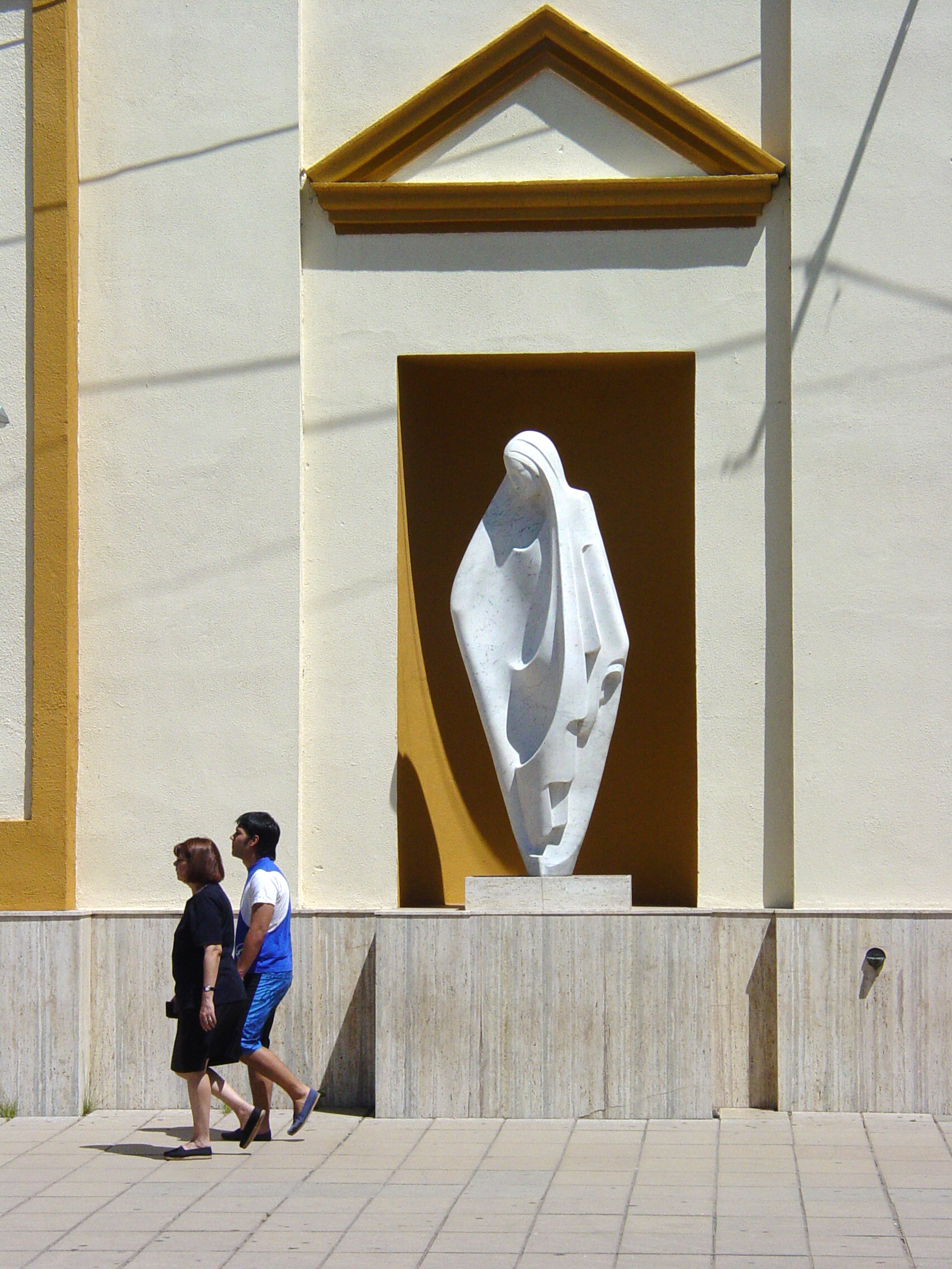 Church in Resistencia, Argentina, "City of a Thousand Sculptures." January 2004.